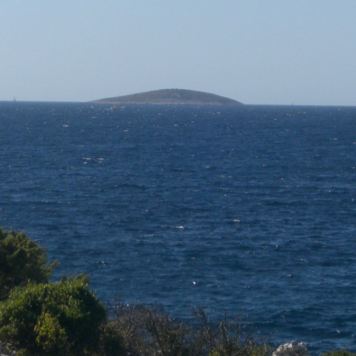 island of Svilan, near Rogoznica, Croatia